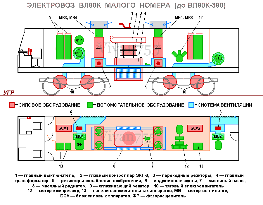 Electric loco VL80K